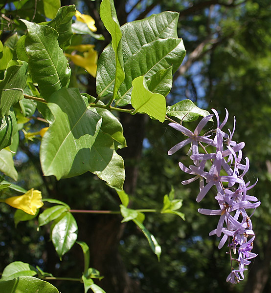 Queen's Wreath, Purple Wreath, Sandpaper Vine, Bluebird Vine or NilmaniPetrea volubilis in Hyderabad , India.